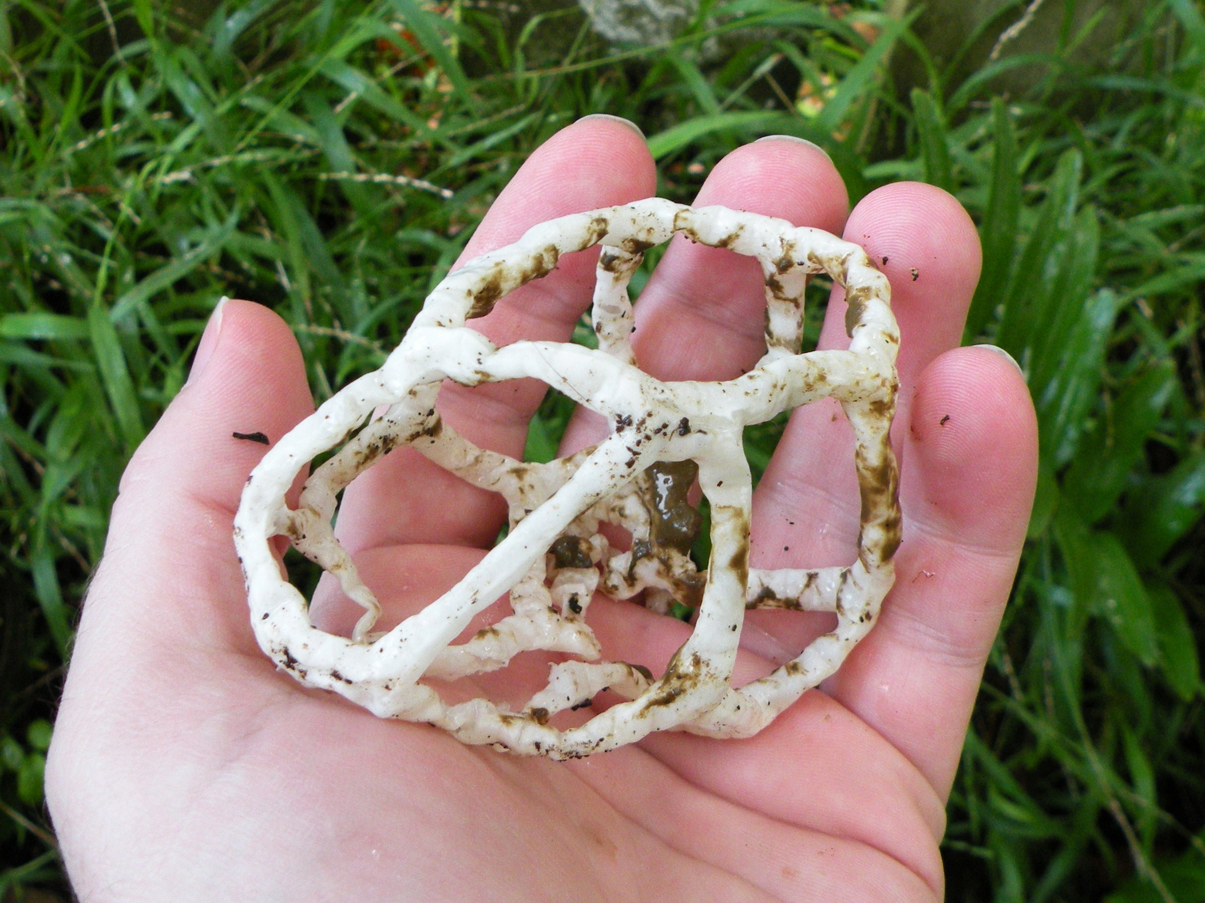 NZ basket fungus (Ileodictyon cibarium)